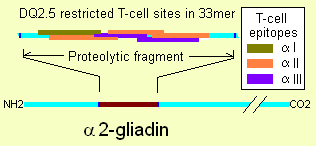 Illustration of a2-gliadin showing the DQ2.5 restricted T-cell epitopes.